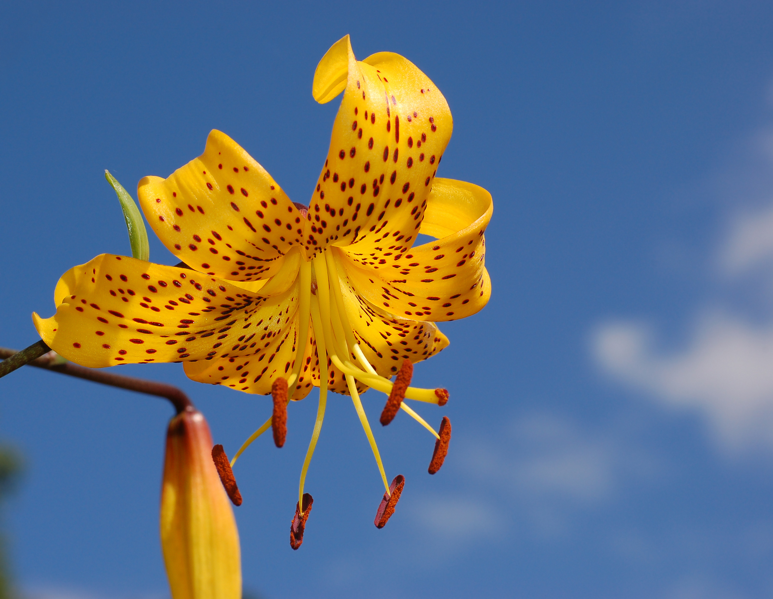 A picture of a lily flower (Lilium en 'Citronella'). Photo taken at the Chanticleer Garden where its species was identified.